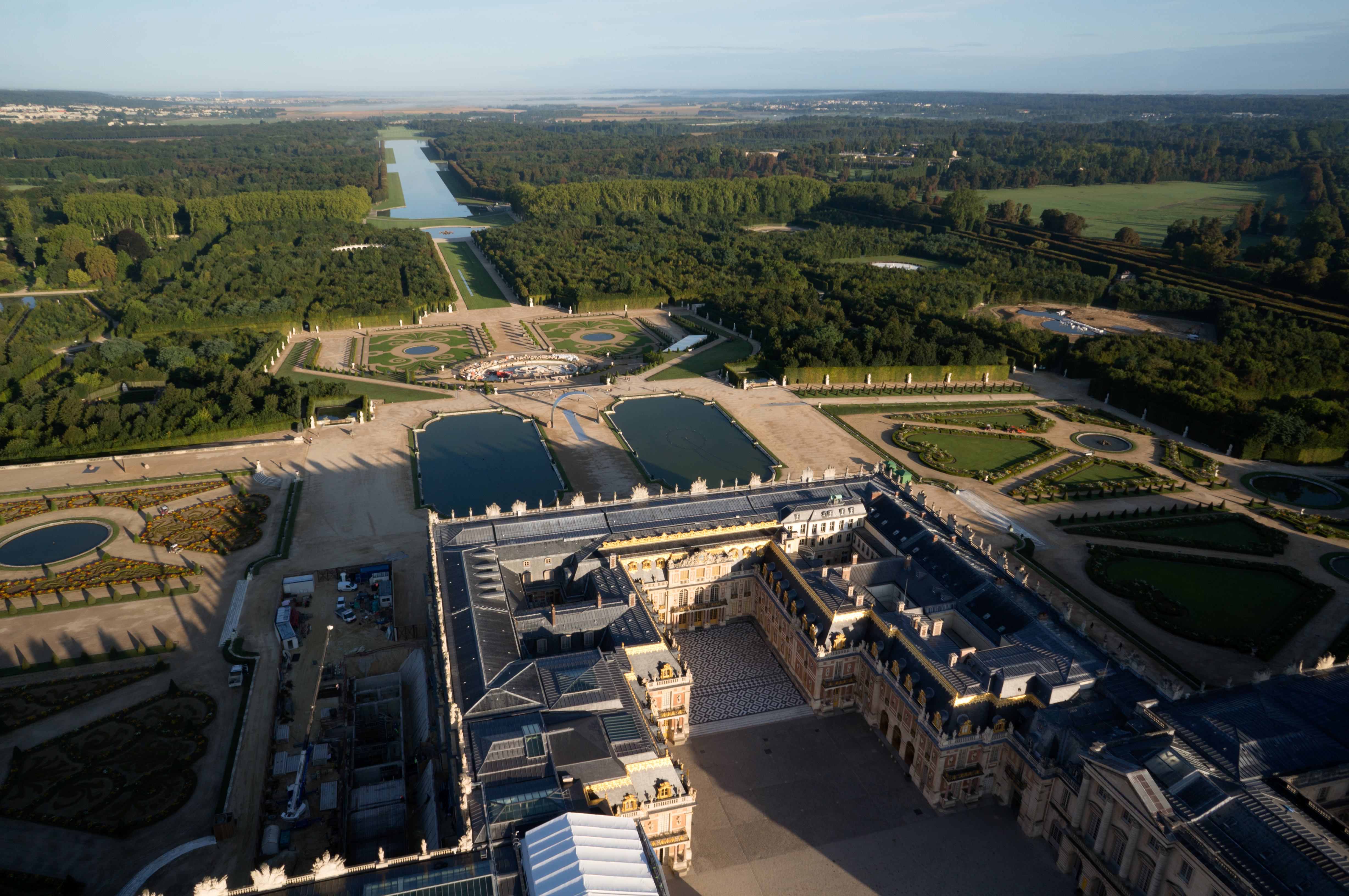 Aerial view of the Palace of Versailles, France